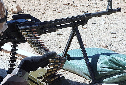 CAMP YASSIR, AL ASAD, Iraq – Iraqi Army Soldiers spend a day at the range, firing the PKC machine gun as part of the School of Infantry. The 10-day course, which is fashioned after the Marine Corps’ version, is designed to train new Iraqi Soldiers in a variety of advanced infantry tactics. Photo by: Cpl. Adam Johnston Photo ID: 2007442010 Submitting Unit: 2nd Marine Division Photo Date:04/02/2007